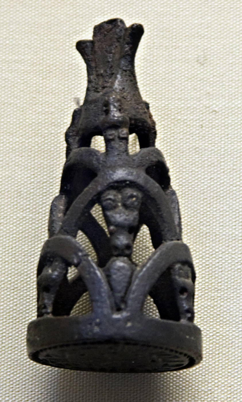 Seal die from the British Museum. Tag on exhibit reads: "Bronze seal die with an openwork handle. Found near a monastery site at Eye, Suffolk. The Latin inscription may be translated as 'The Seal of Bishop Ethilwald', possibly referring to Aethelwald, Bishop of nearby Dunwich, AD 845-870. Given by Hudson Gurney MP, 1822 MME 22,12-14,1. See BM database entry for more details